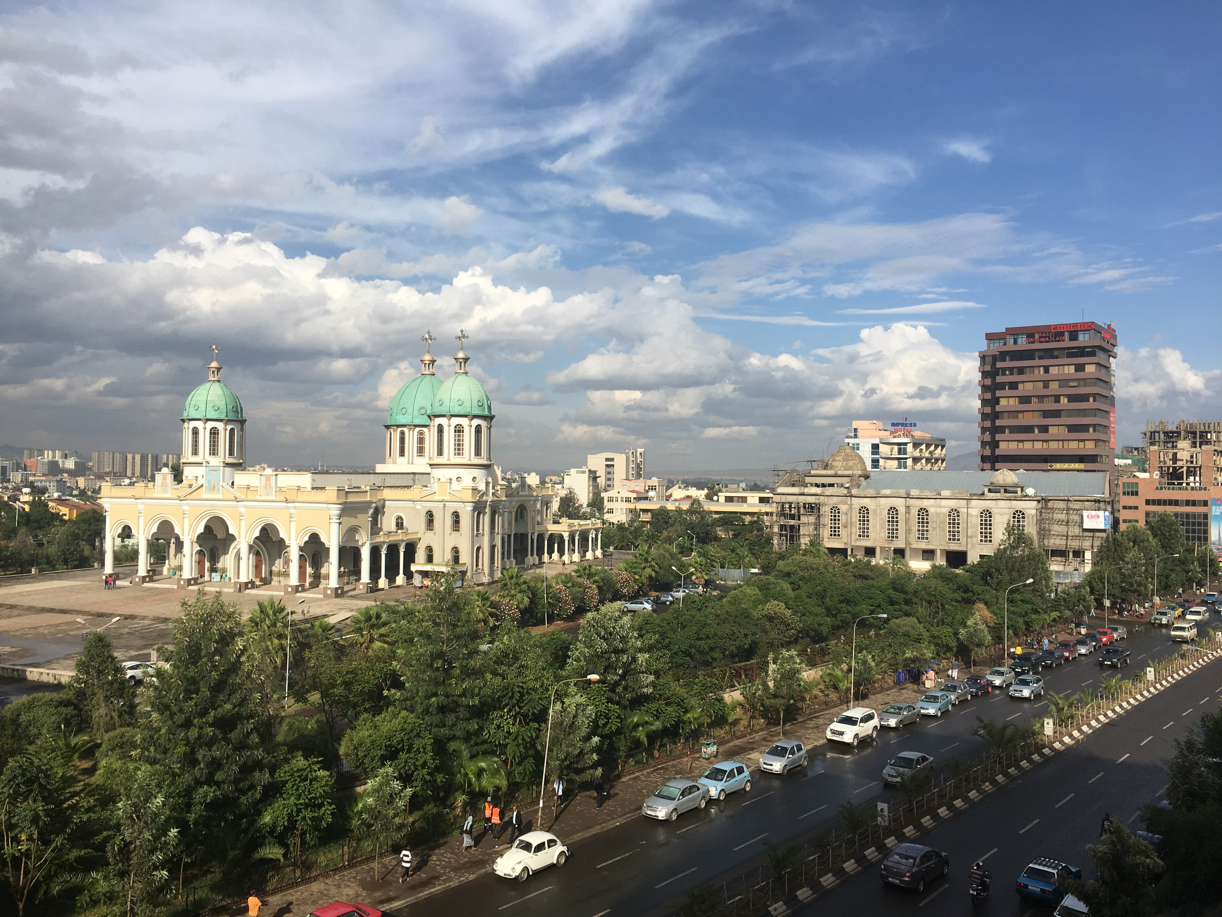 Bole Medhan Alem Cathedral Church Addis Ababa